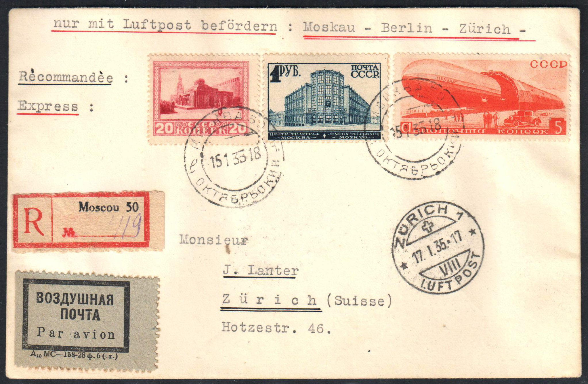 USSR 1935-01-15 registered airmail cover sent from the Soviet Philatelic Association, Moscow to Zurich. Franking 1R25k. Catalogue: Mi. 294A, 392, 483